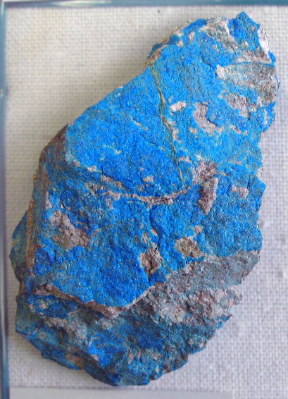 Bright blue crystalline papagoite crust with conichalcite, from Ajo, Arizona. Photograph taken at the Natural History Museum, London.